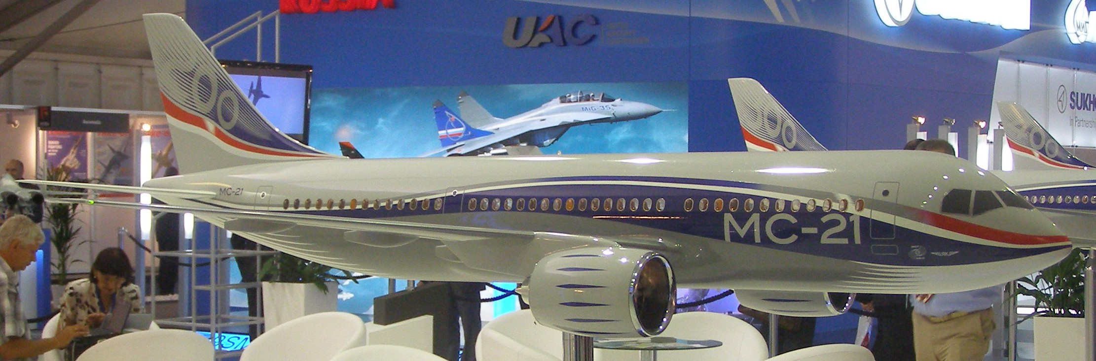 A model of the proposed Irkut MS-21-200 airliner at the 2010 Farnborough Airshow